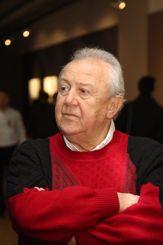 Photo of Zurab Tsereteli